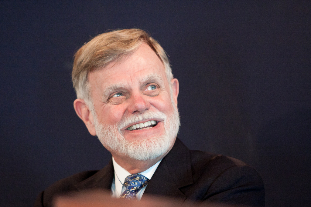 Photograph of Henry R. Nau at an event at the Elliott School of International Affairs.